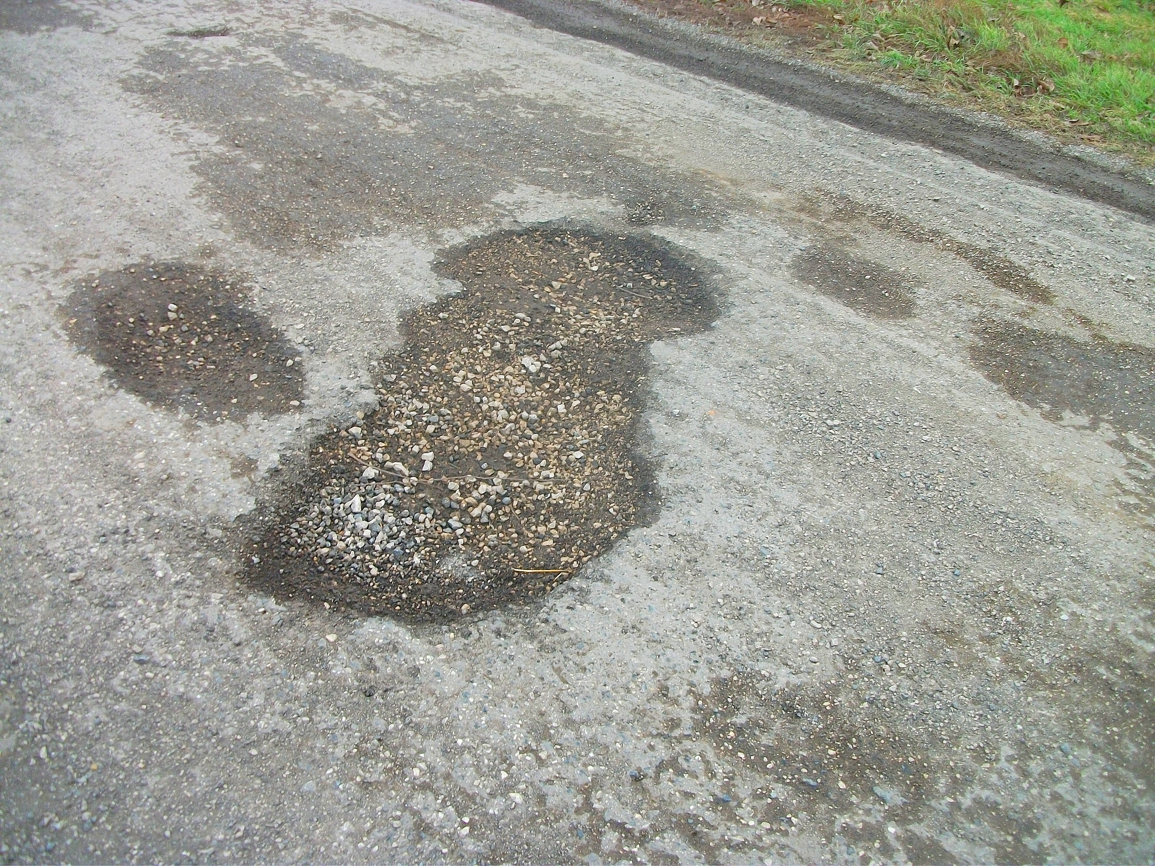 Pothole in Zichyújfalu.